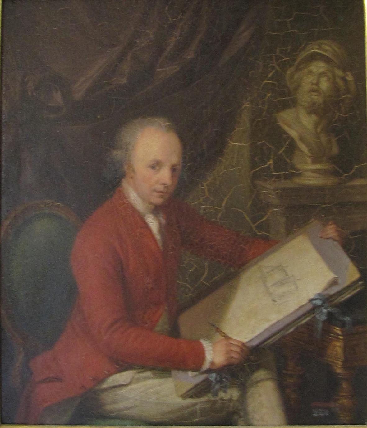 Portrait of Charles Gore (1729-1807)